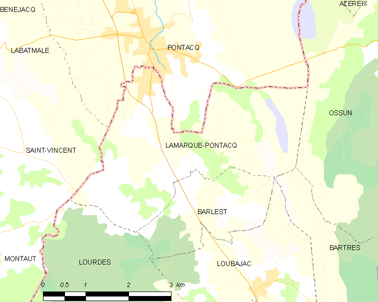 Map of French municipality